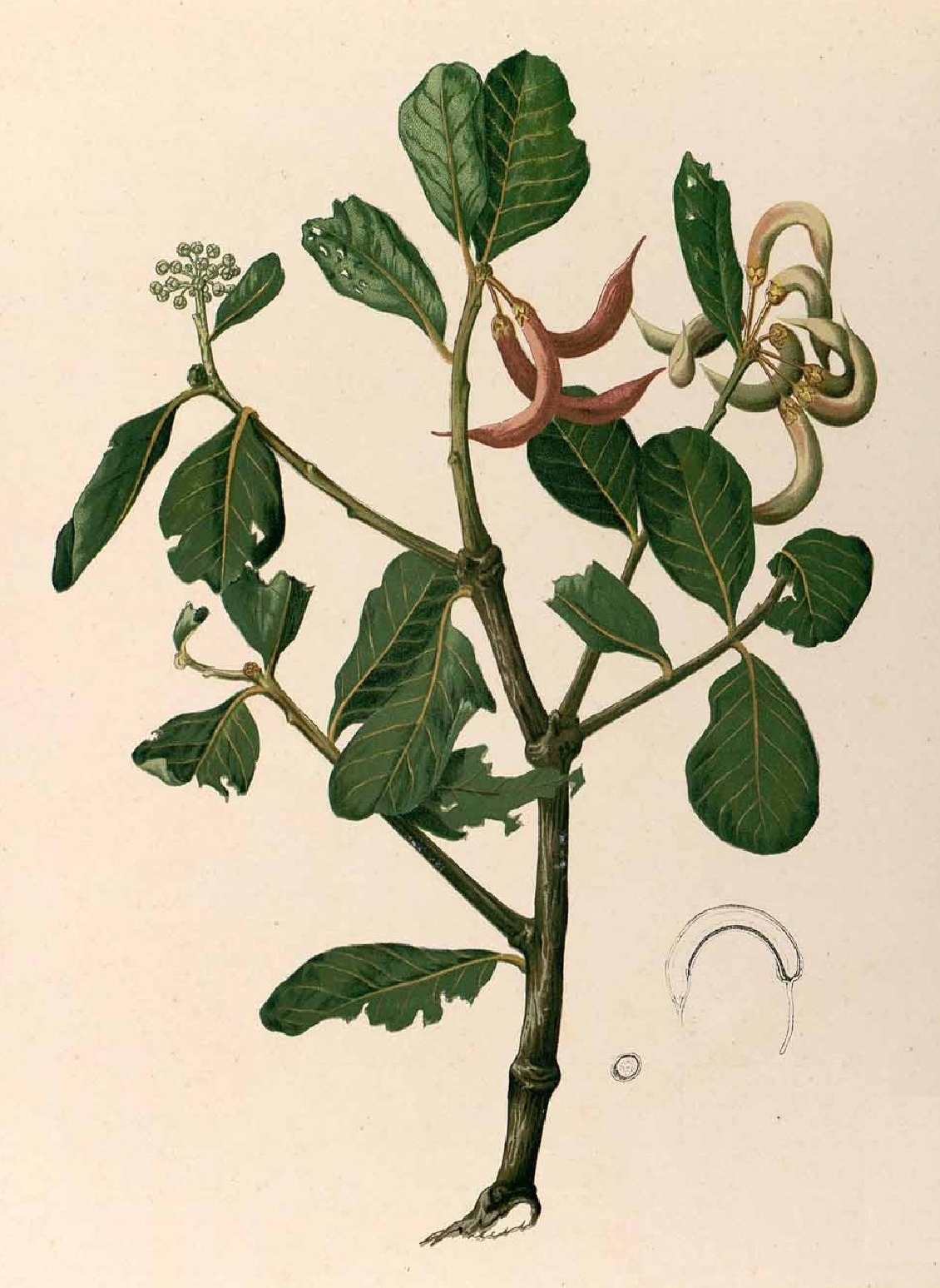 Plate from book